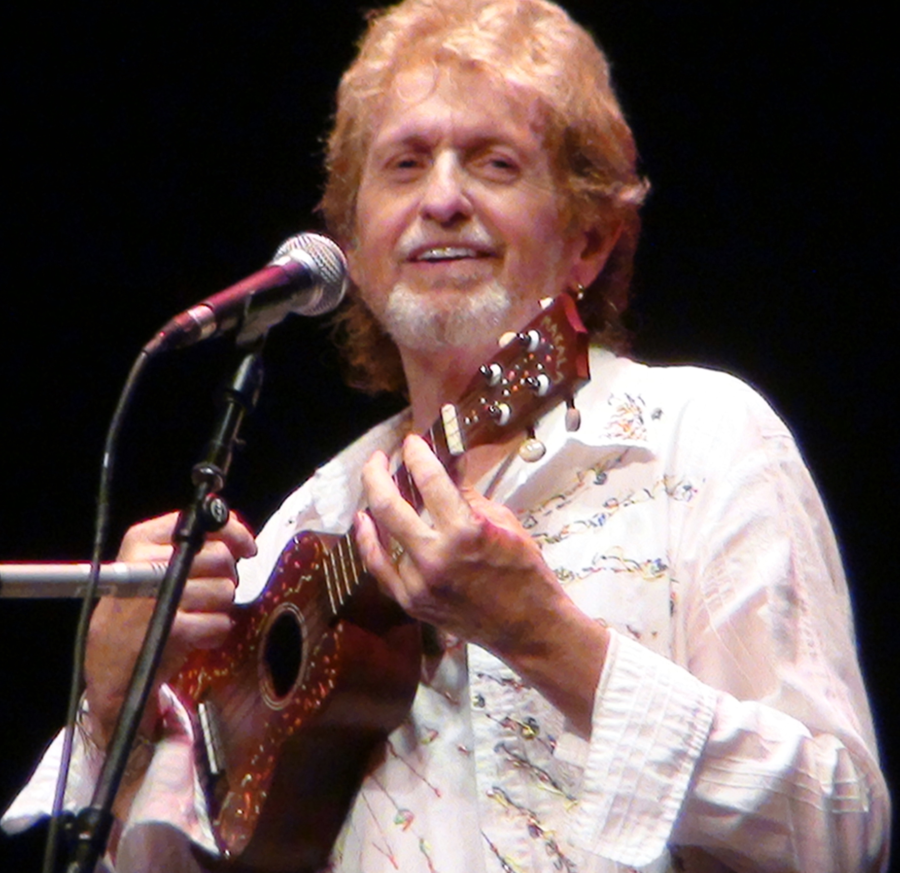 Photo of Jon Anderson taken by me at Citibank Hall, São Paulo, Brasil, on 13 December 2011.